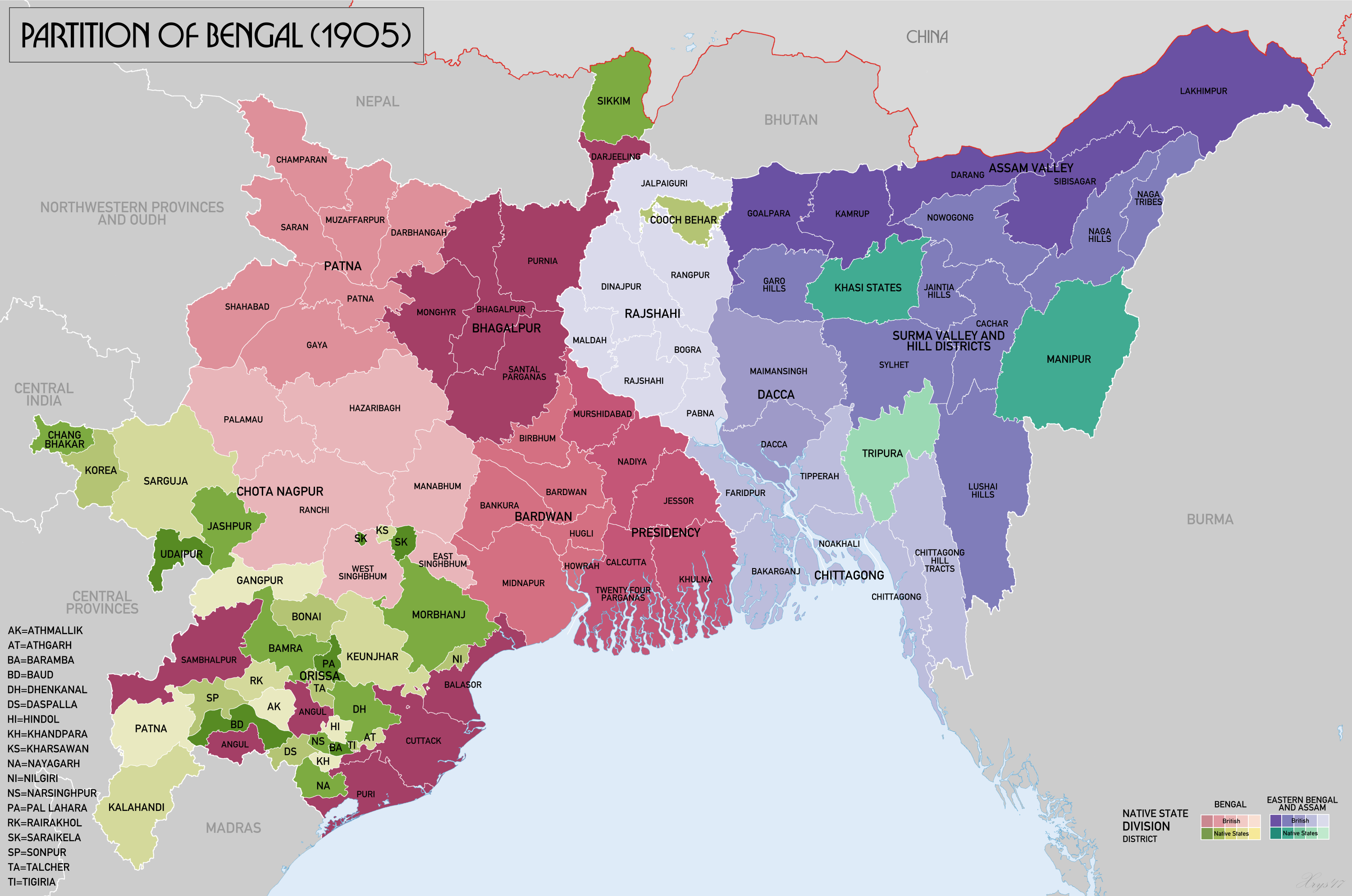 Map of showing the partition of Lower Bengal between Bengal and East Bengal and Assam in 1905. Source data: Survey of India 1:253k (Perry-Castenada Map Library, Univ of Texas), India 1:1M, Imperial Gazetteer of India 1:4M (Digital South Asia Library, Univ of Chicago).